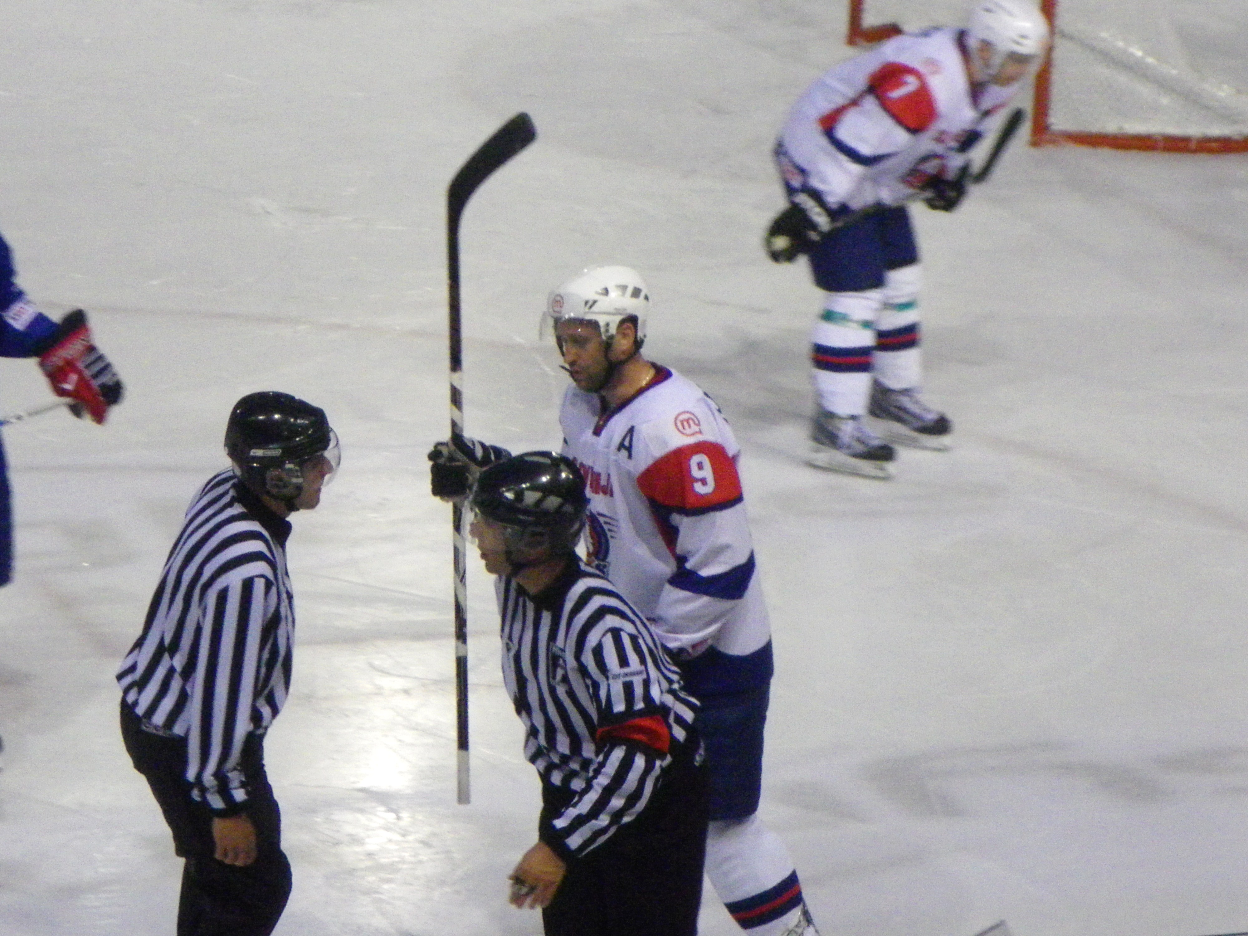 Tomaž Razingar, slovenian ice hockey player